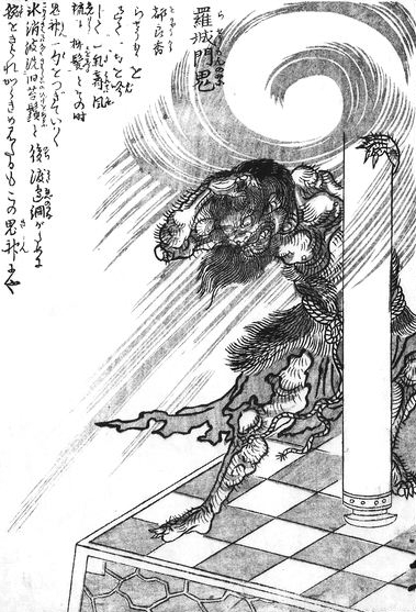 Rashōmon-no-oni (羅城門鬼, Oni of Rashōmon) from the Konjaku Hyakki Shūi (今昔百鬼拾遺)